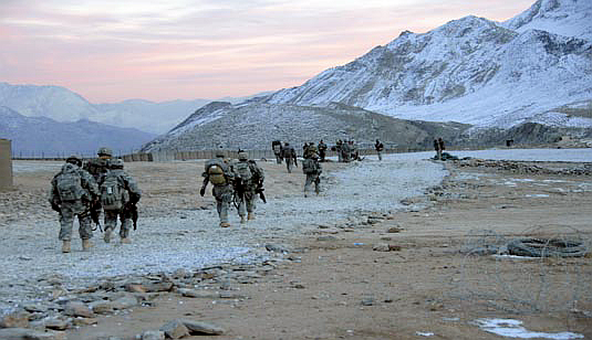 Soldiers from B Co., Division Special Troops Battalion, Task Force Gladius, move to the landing zone on FOB Morales Frasier to be airlifted into Surobi District, Afghanistan, to protect a CH-47 that emergency landed there Jan. 20. (U.S. Army photo by Sgt. Johnny R. Aragon)